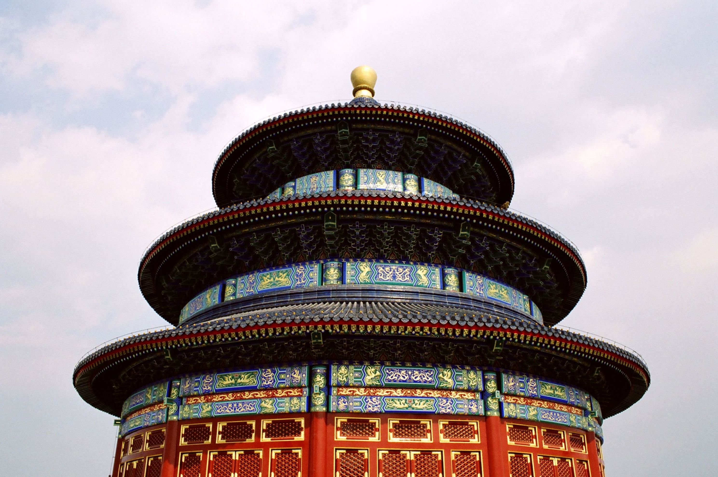 Tiantan (Temple of Heaven), Beijing